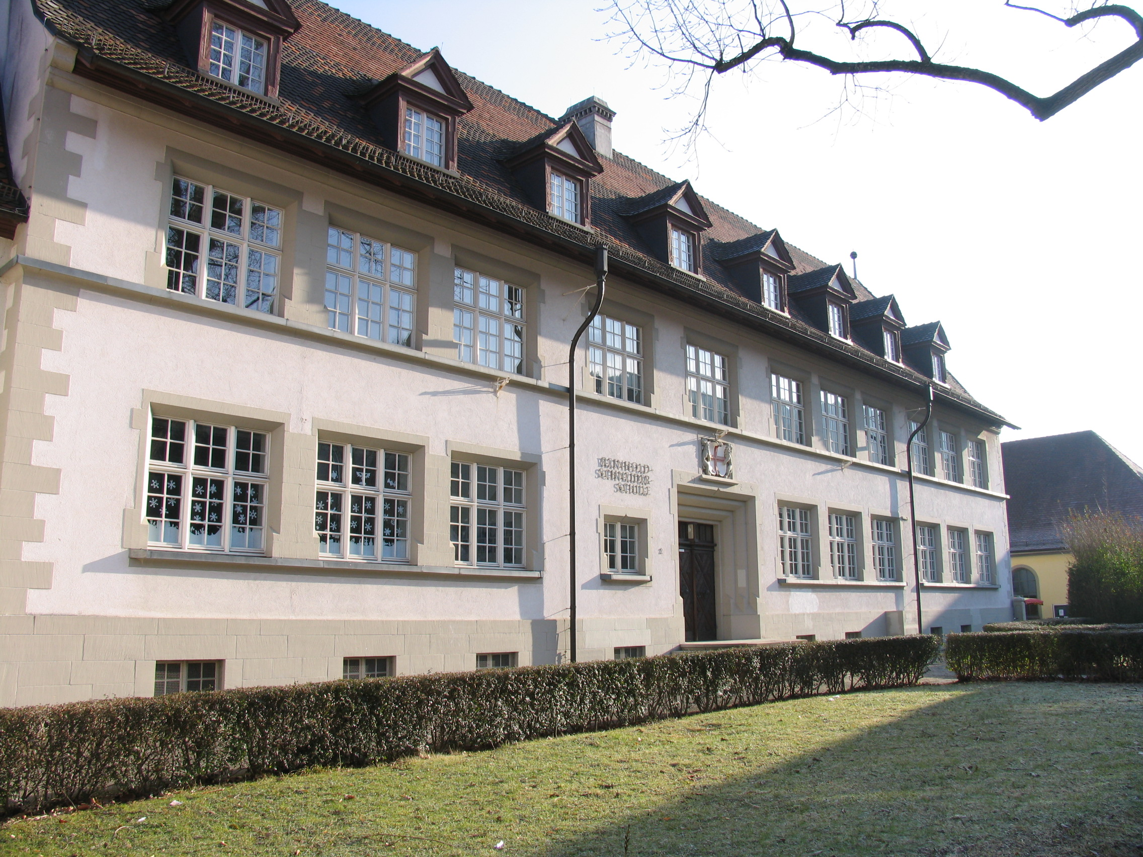 School "Reinhold-Schneider-Schule" in Littenweiler , Freiburg, Germany